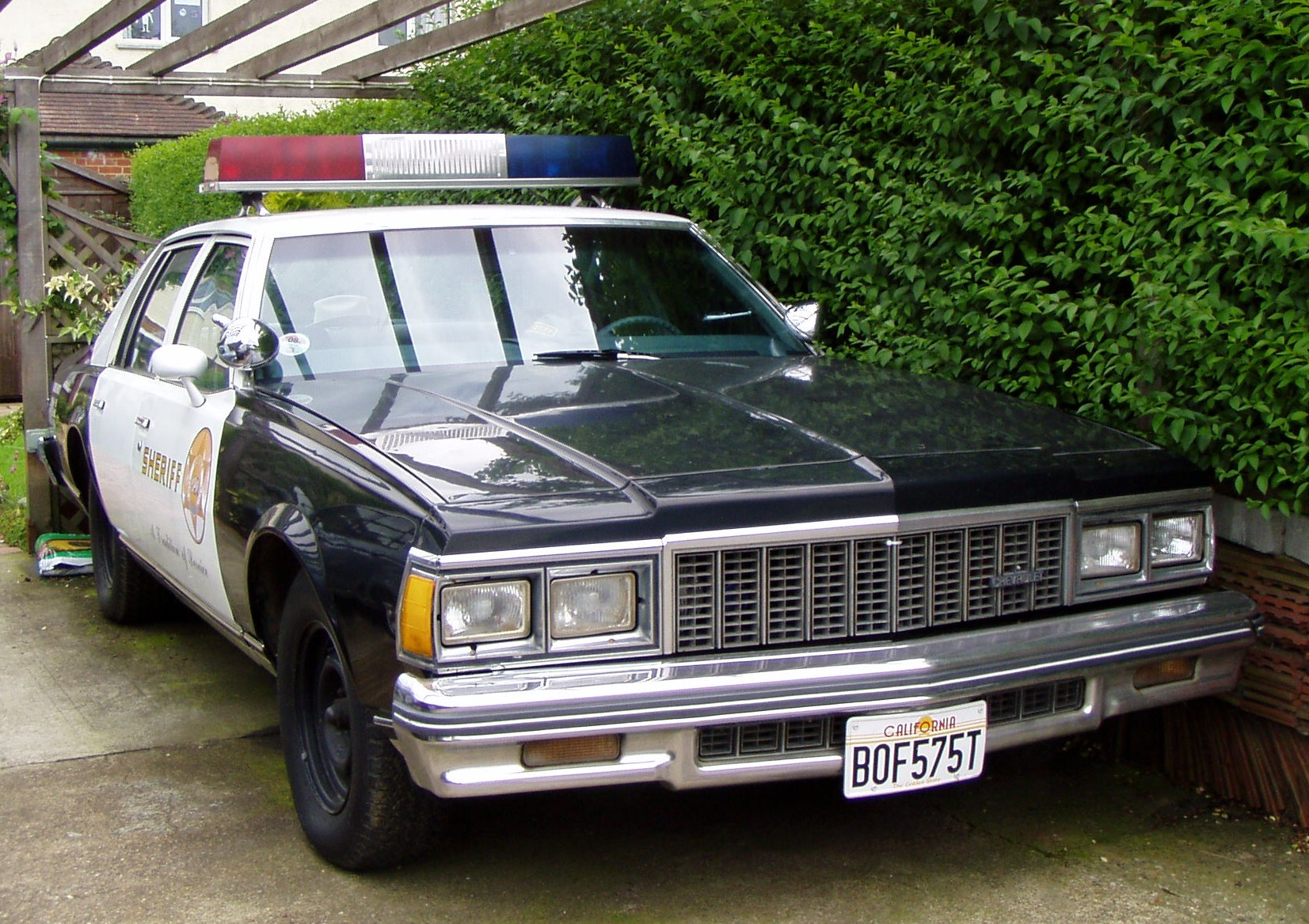 1979 Chevrolet Caprice Classic (Oldsmobile, 2007 seen in GB)